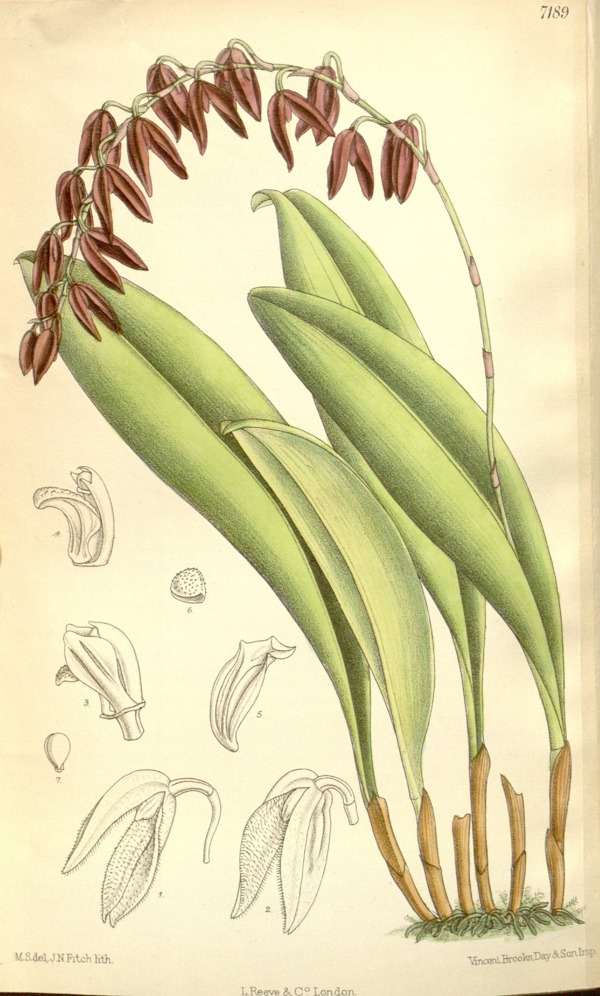 Illustration of Pleurothallis immersa